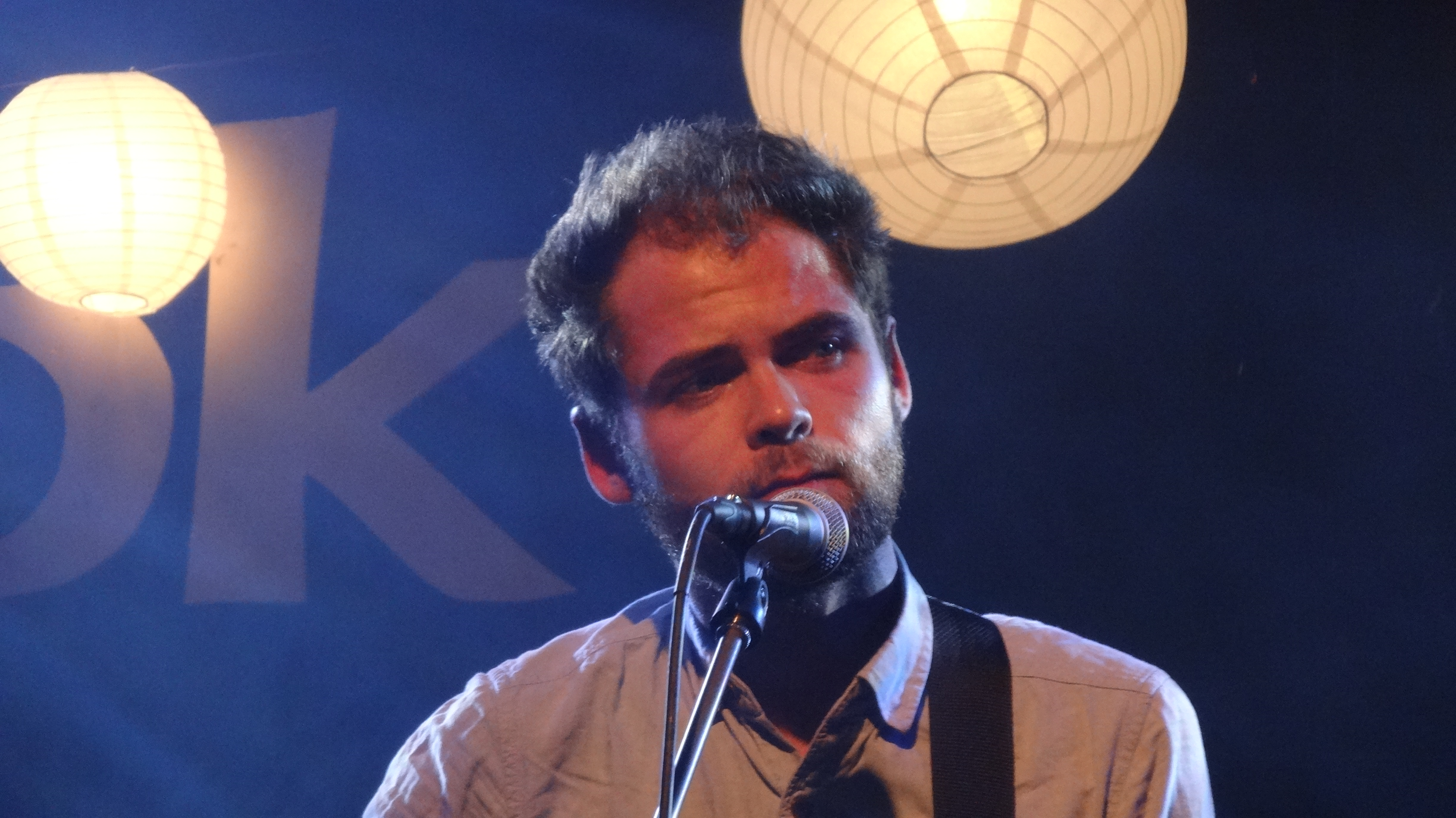 Mike Rosenberg (AKA Passenger), seen performing at The Brook music venue, Southampton, Hampshire, in January 2013.